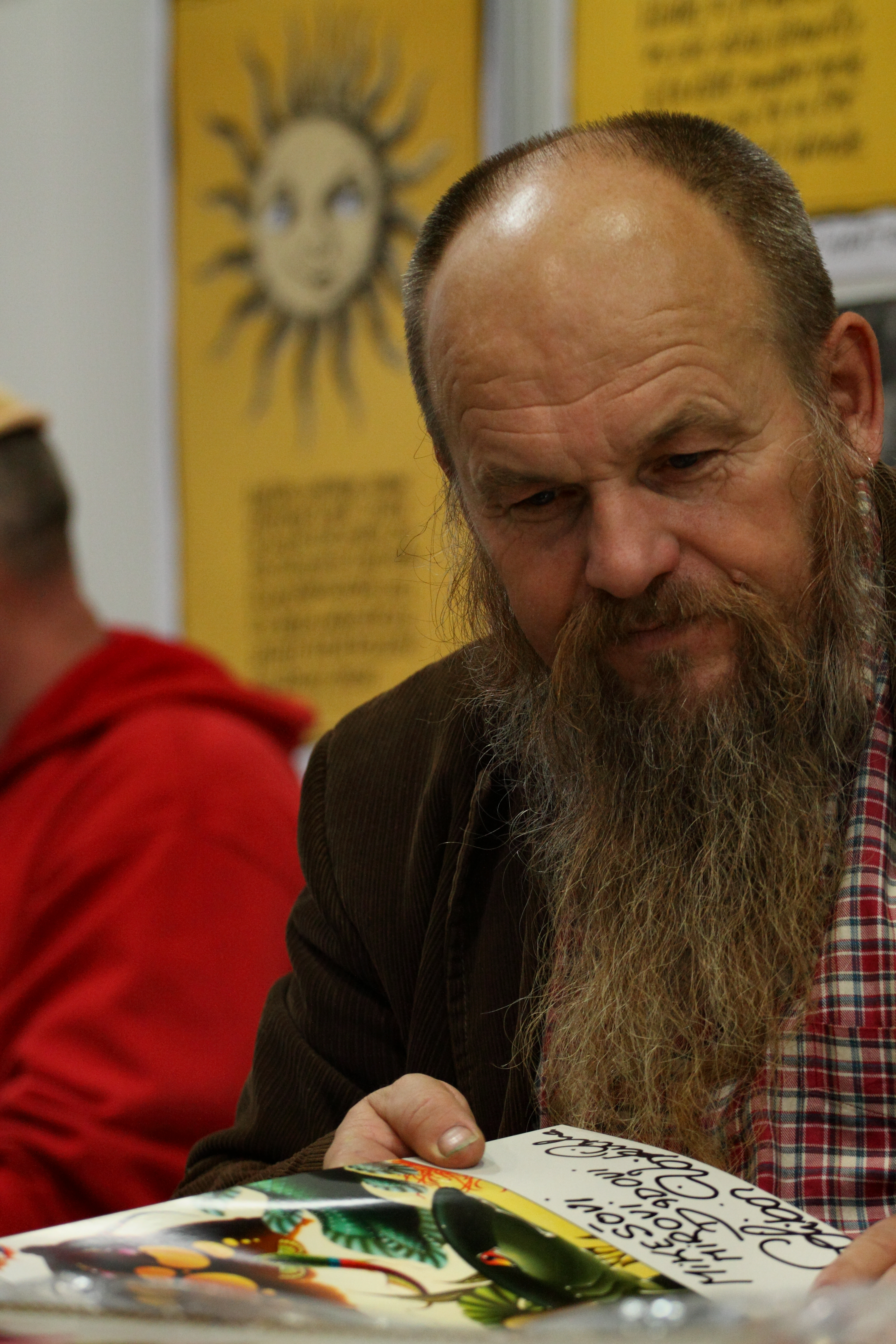 Czech painter Libor Vojkůvka at LIBRI 2009 in Olomouc.